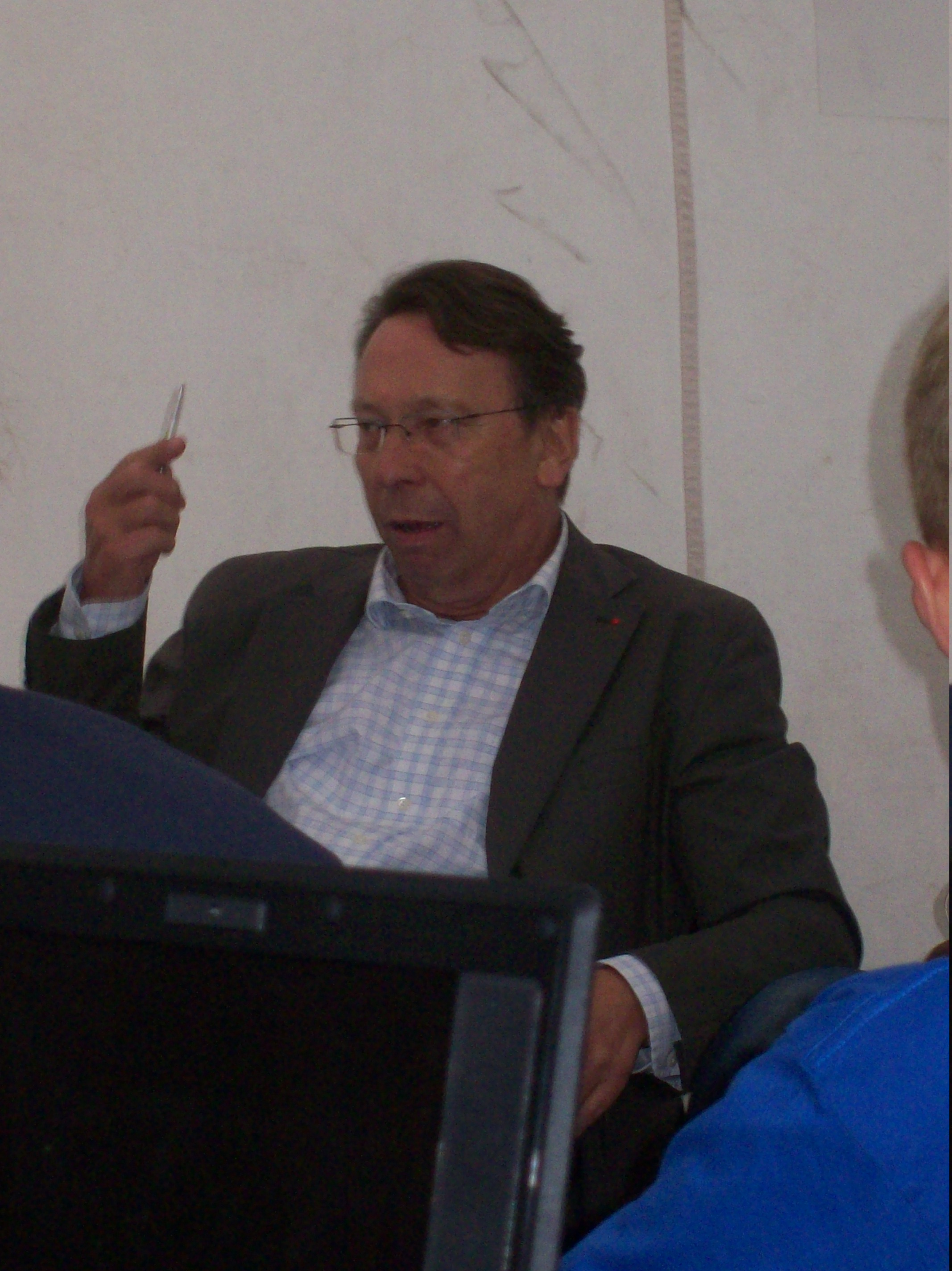 Berlin 08 Klaus Uwe Benneter